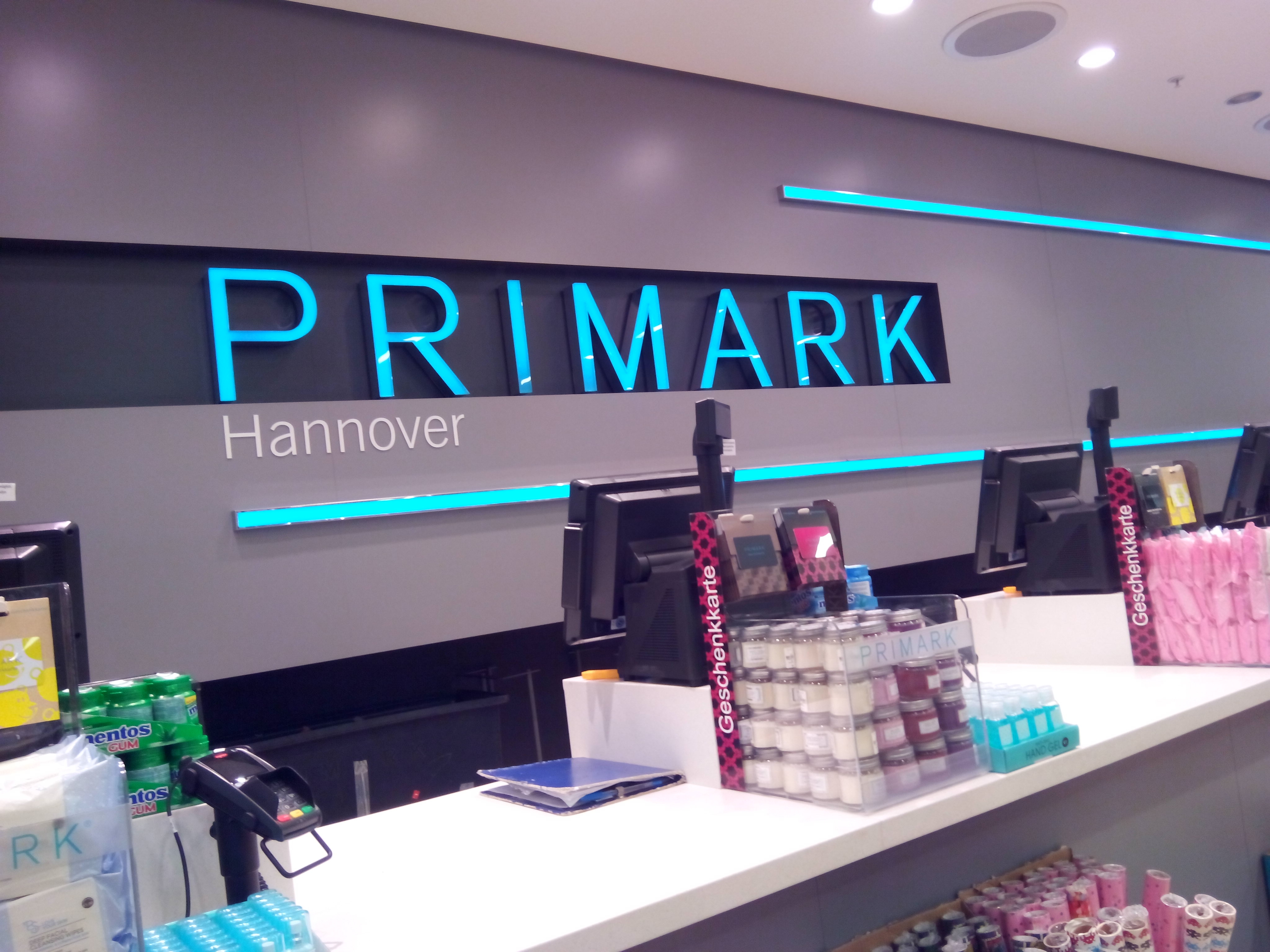 A Primark shop in Hannover, Lower Saxony, Germany (open since October 27th, 2011)